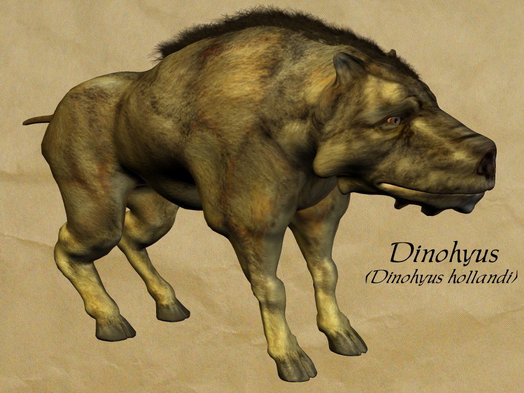 Dinohyus hollandi rendered in Poser 7 and edited in Photoshop.